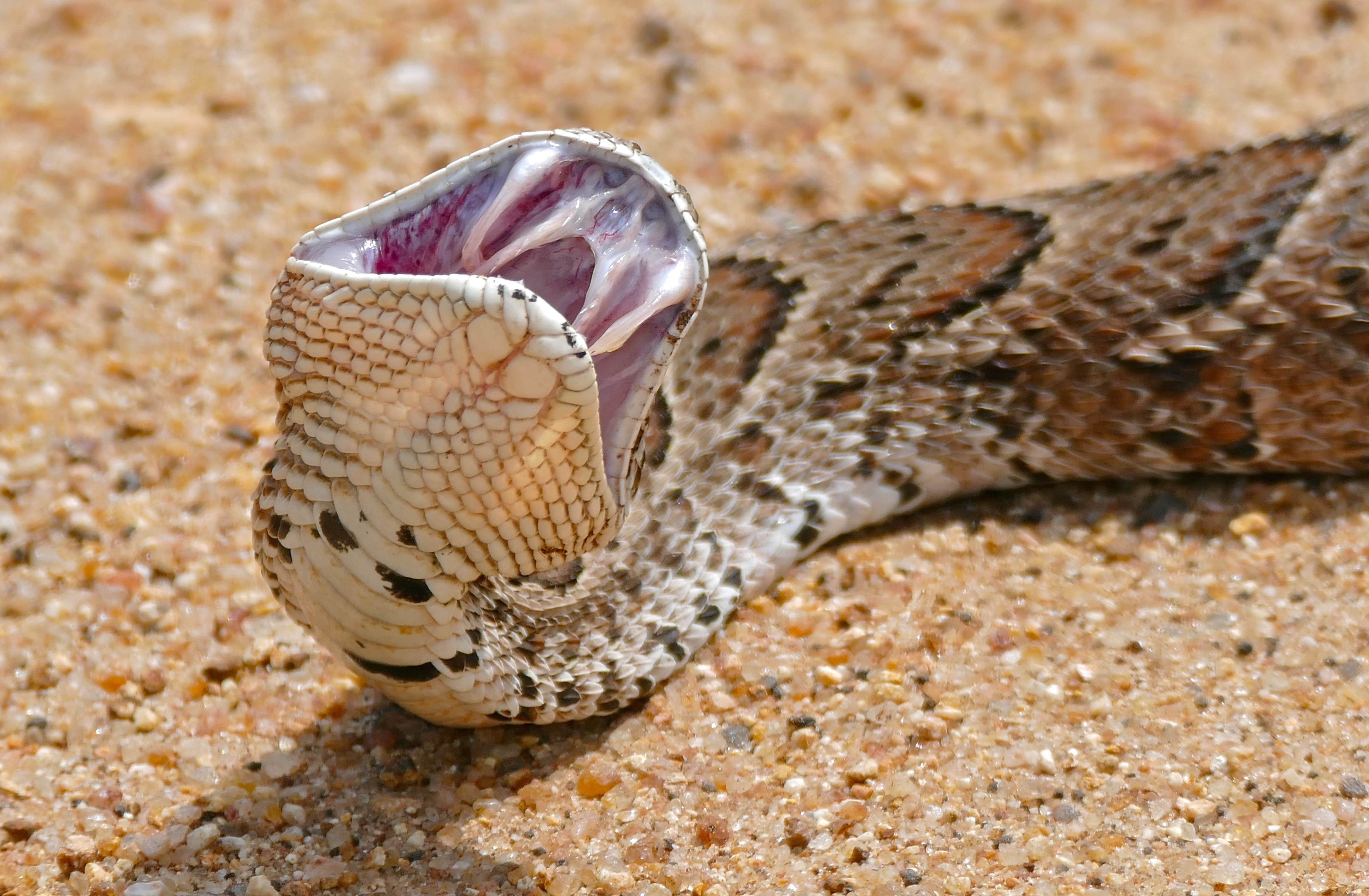 S114 Road South of Skukuza, Kruger NP, SOUTH AFRICA